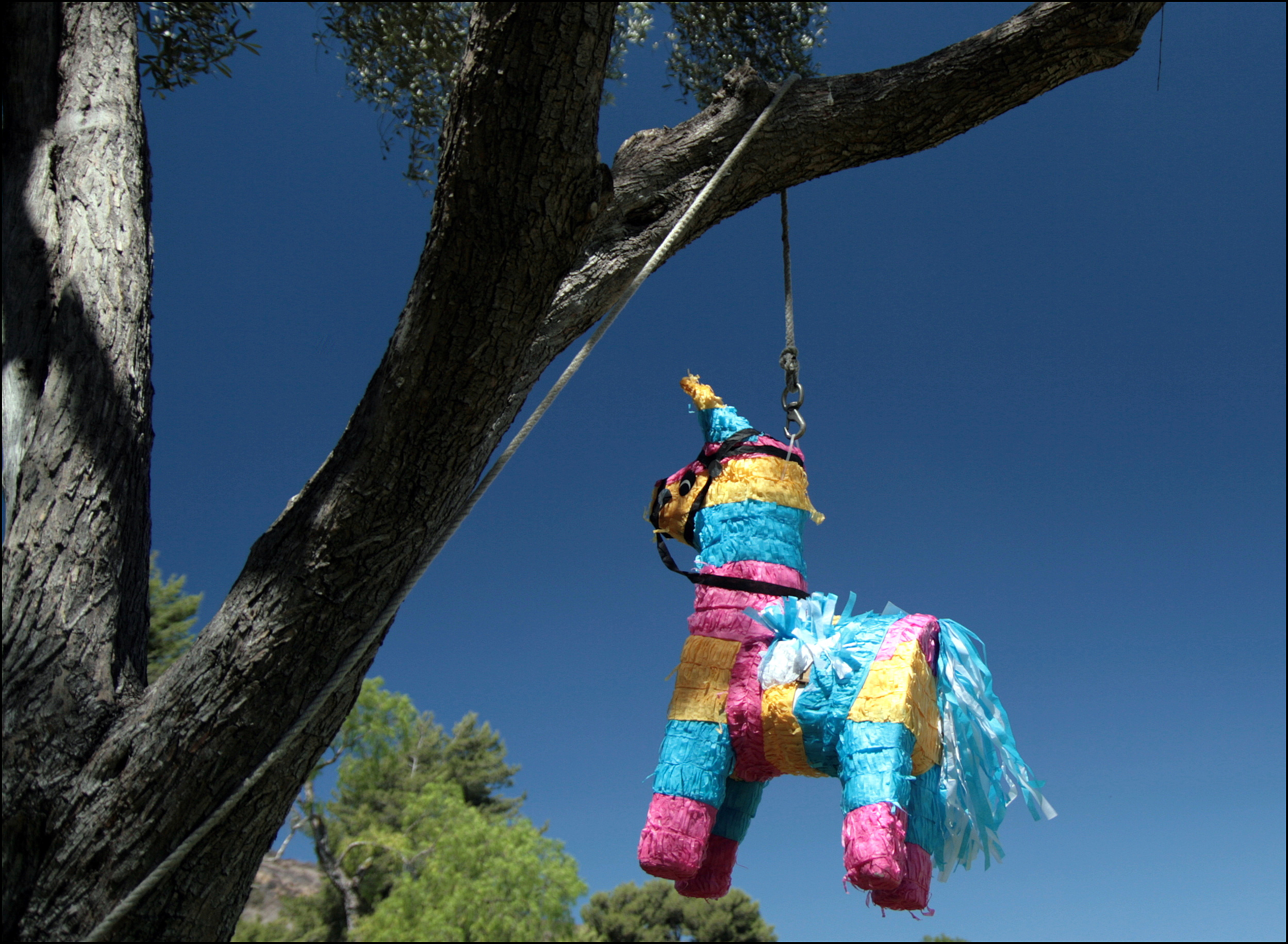 Piñata in San Diego, California Had to add the above, thanks Lotte Hjorth!